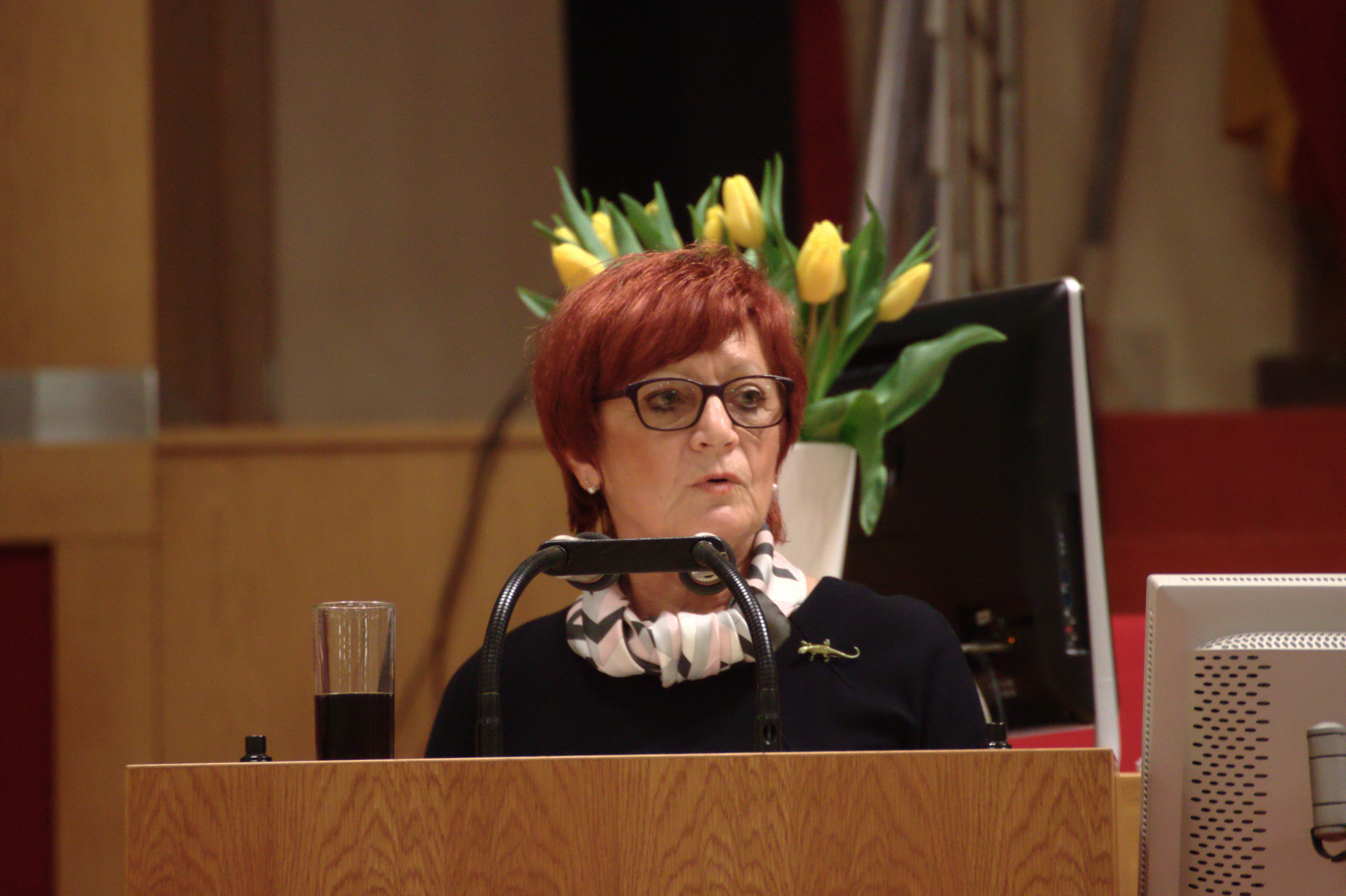 Prague City Council member Eva Kislingerová speaking during the 4th session of the Prague City Hall Deputies